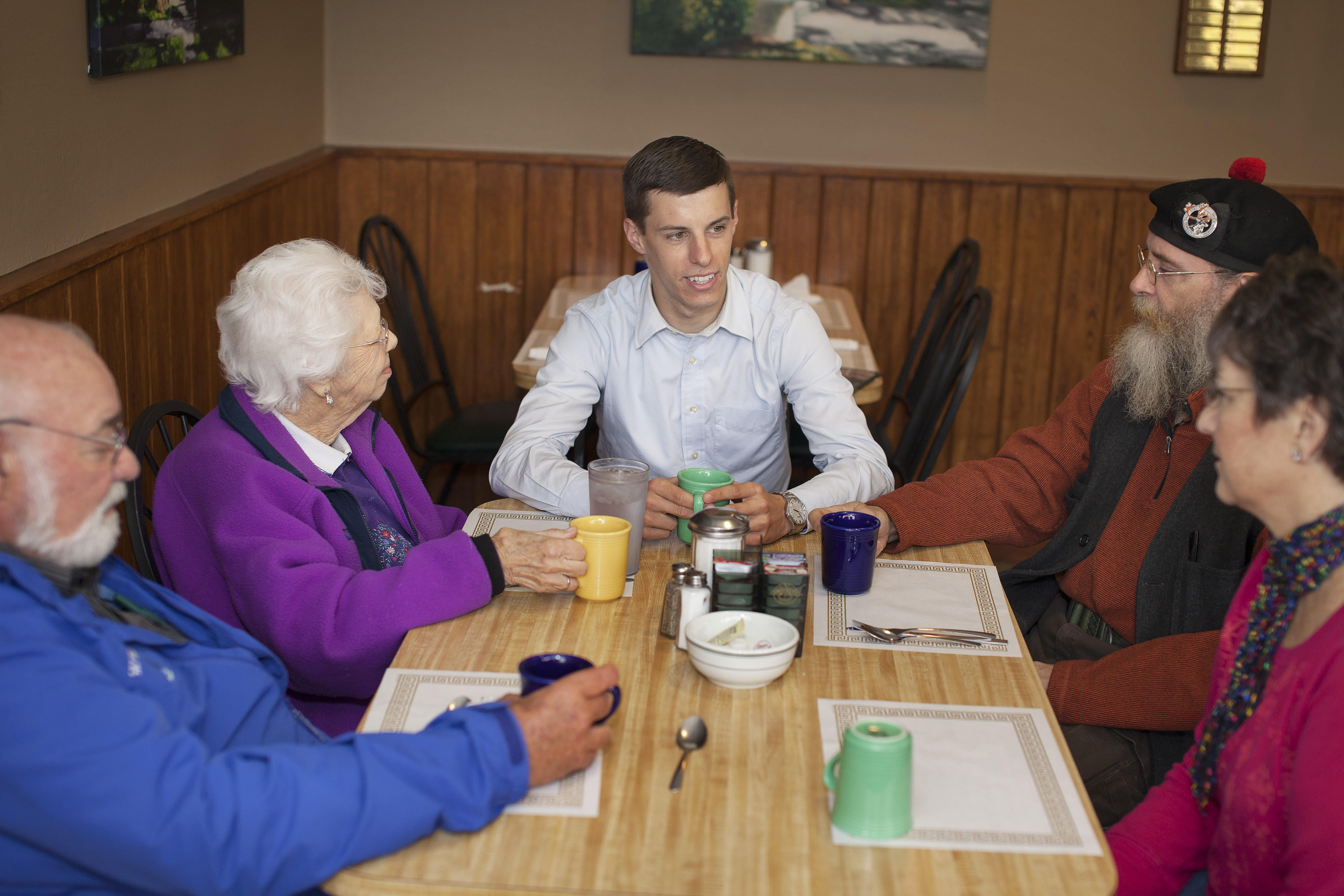 Lee Chatfield meets with residents during monthly office hours